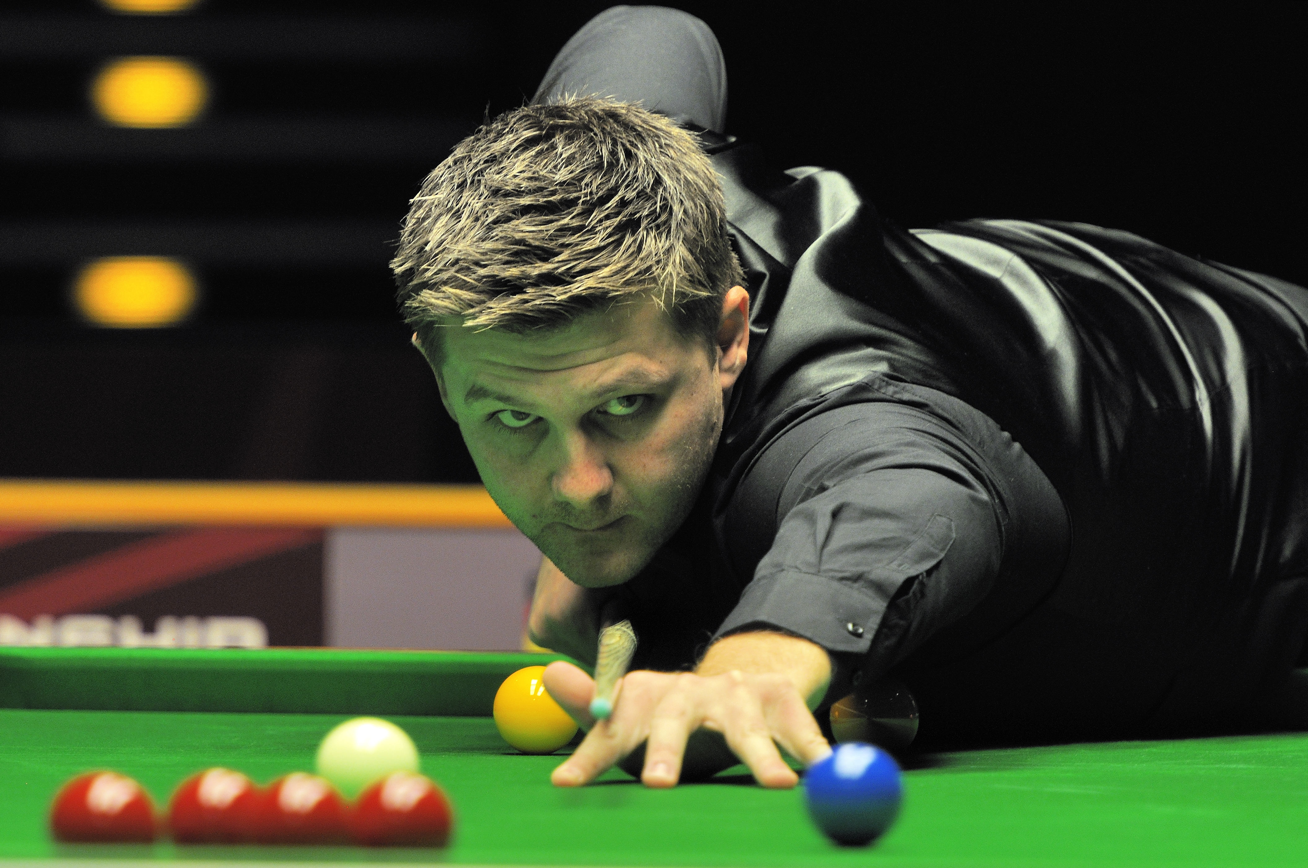 Picture taken in Berlin during the Snooker German Masters in 2014. Ryan Day.